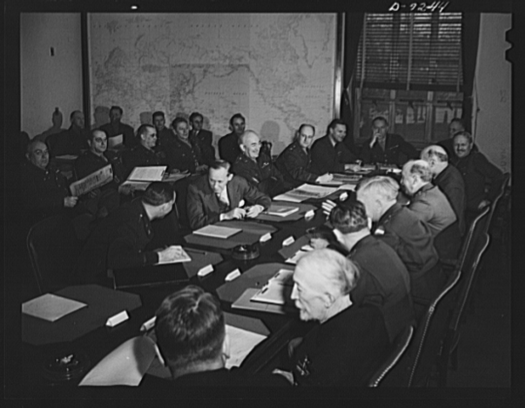 Combined Munitions Assignments Board at weekly meetings in Washington, with Chairman Harry Hopkins presiding. Staff officers in the background, attend the meetings. Seated at the conference table clockwise are the following: Major General L.D. Clay (American); Harry Hopkins (American); Major General J.H. Burns (American); Lieutenant Colonel E.C. Kielkopf (American); Wing Commander T.E.H. Birley (British); Brigadier General W.F. Tompkins (American); Brigadier General S.P. Spalding (American); Brigadier L.F.S. Dawes (British); Air Vice Marshal W.F. MacNeece Foster (British); Lieutenant General G.N. Macready (British); Major General R.C. Moore (American); Colonel J.B. Franks (American); Admiral J.M. Reeves (American); Vice Admiral J.W.S. Dorling (British). In the background, left to right are Lieutenant Colonel B.F.R. Seitz (American); Colonel J.Y. York, Jr. (American); Colonel W.R.D. Robertson (British); Colonel C.M. Steese (American); Major W.M. Martin, Jr. (American); Colonel W.H. Hobson (American); Major A. Selbie (British); Brigadier General P.H. Tansey (American); Mr. M. Michaels (British); Lieutenant Colonel W. Skidmore (American)